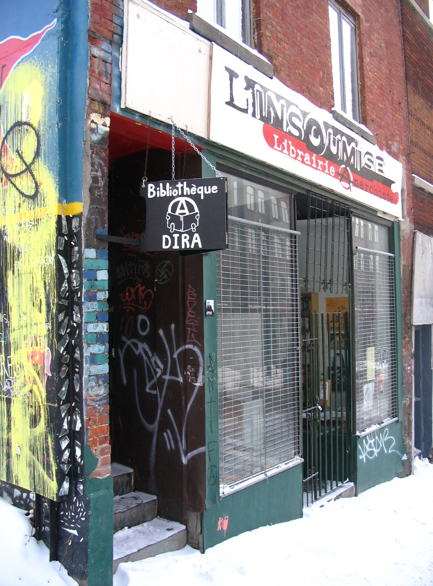 "L'Insoumise", Montreal's anarchist bookstore/infoshop, St Laurent BlvdL'Insoumise Montreal